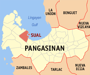 Map of Pangasinan showing the location of Sual